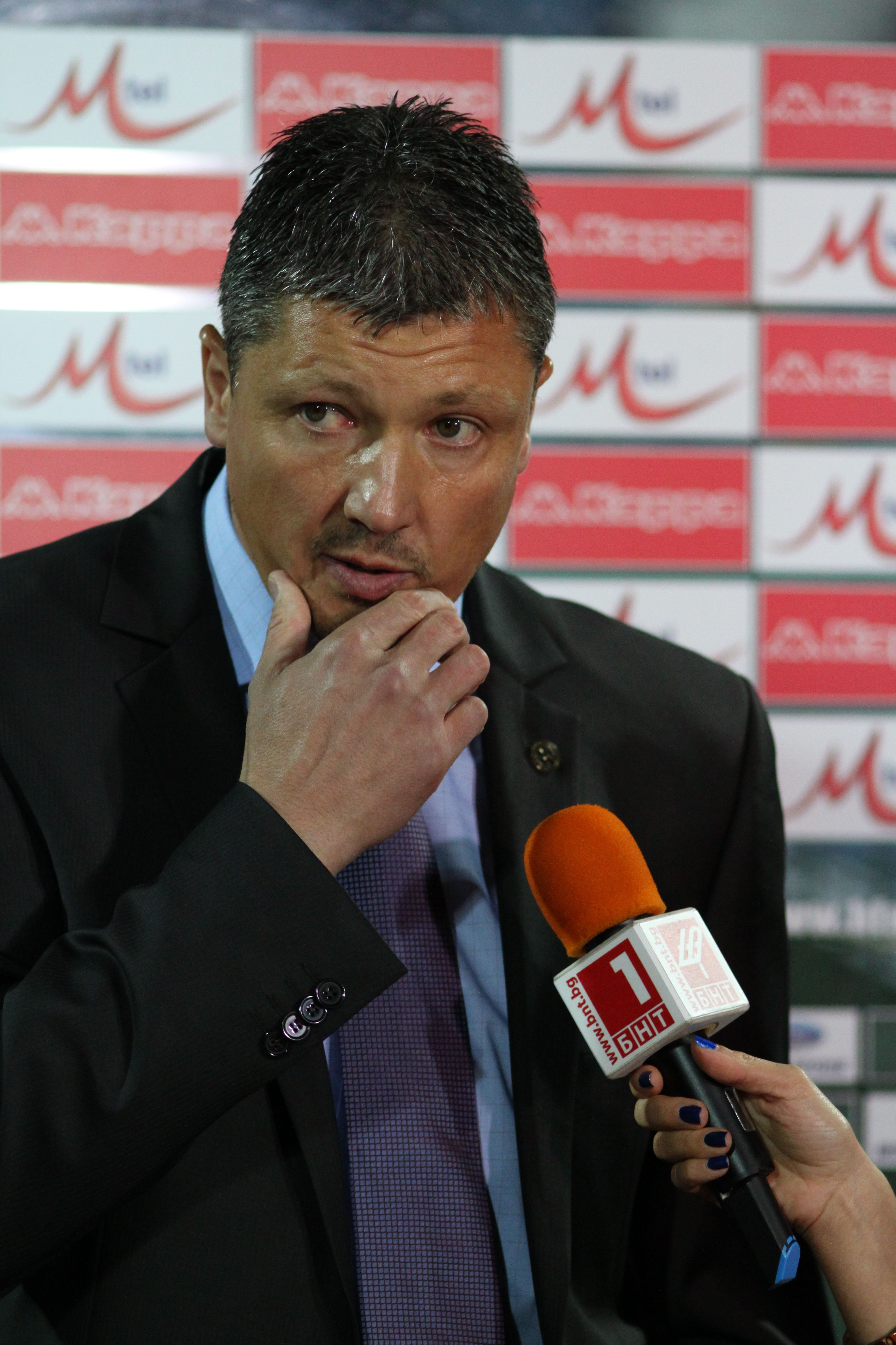 Lyuboslav Penev - former bulgarian football player, striker, coach